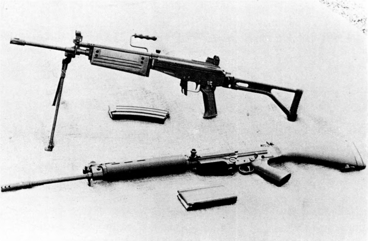 R4 rifle